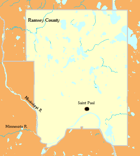 Locator Map of Ramsey County, Minnesota, United States